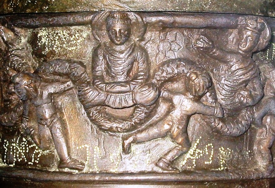 Kanishka Casket, 127 CE. British Museum. Personal photograph 2005